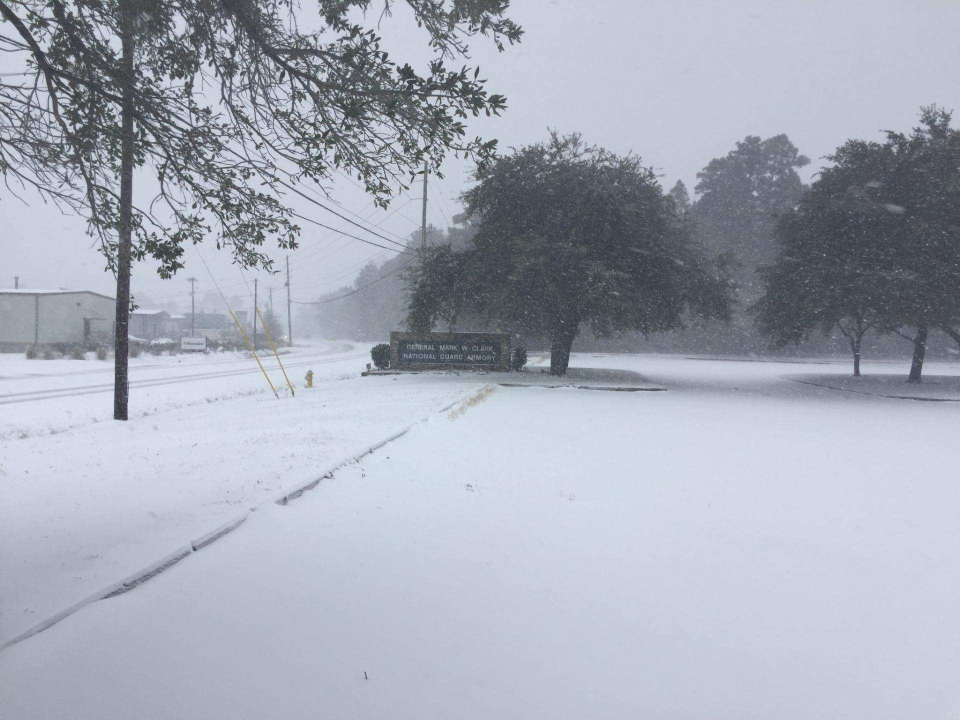 The North Charleston Armory covered in snow after a rare snow and ice event along the eastern South Carolina coast, Jan. 3, 2018. (courtesy photo)